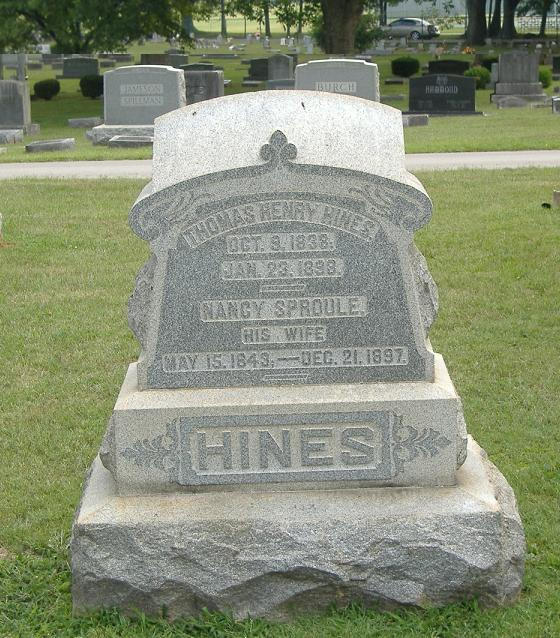 Gravestone of Thomas Hines, located in Fairview Cemetery of Bowling Green, Kentucky.